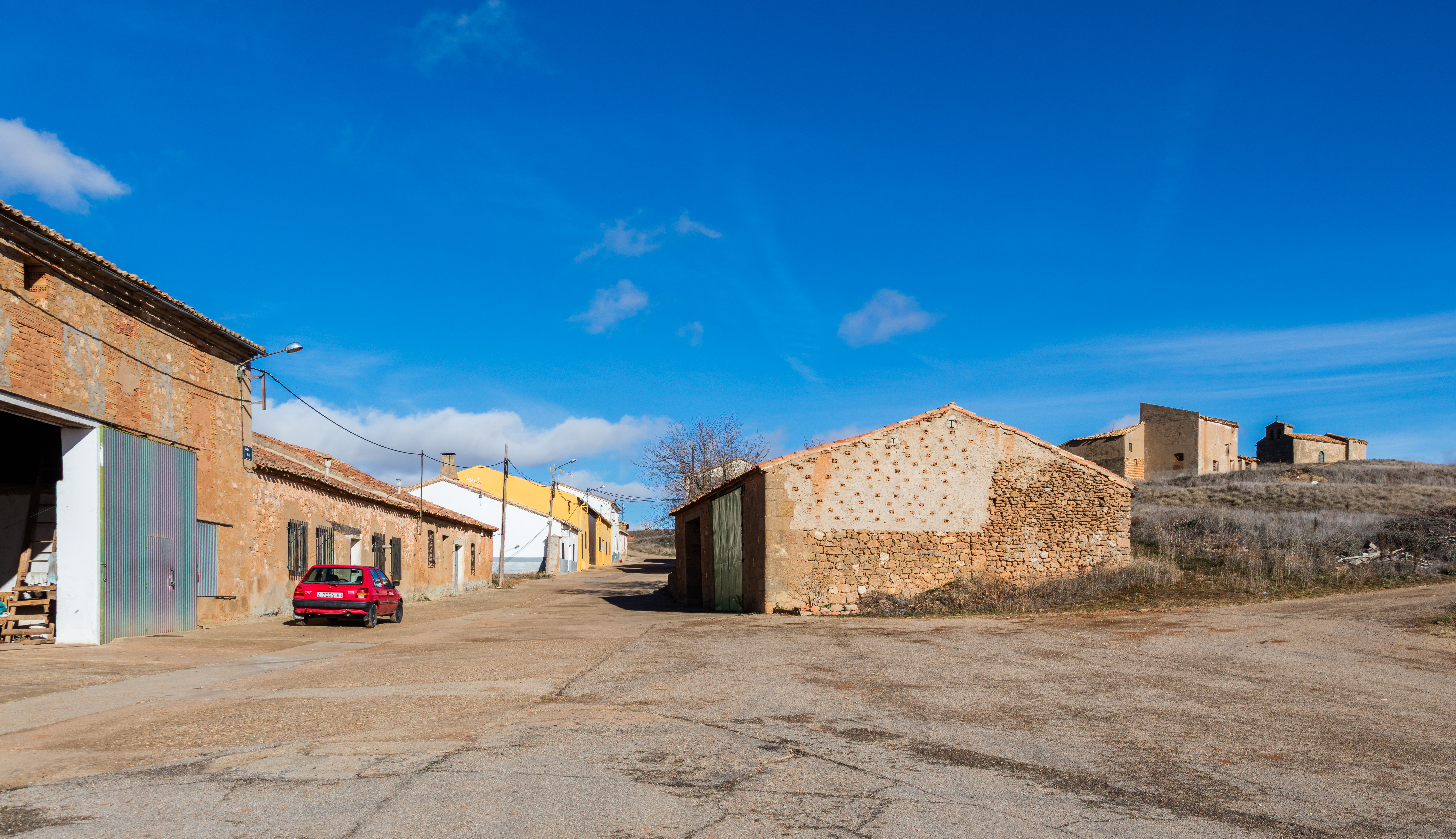 Alparrache, Soria, Spain